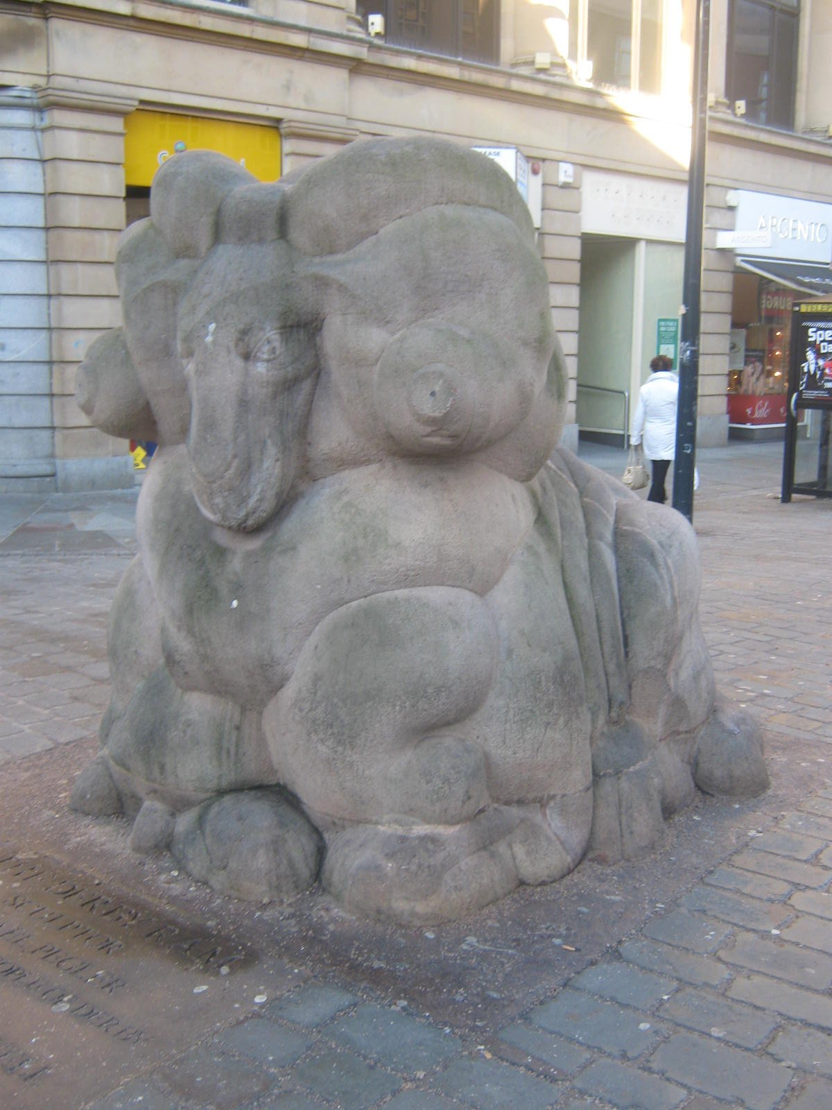 The Derby Ram on East Street and Albion Street, Derby The Derby Ram situated on East Street and Albion Street. Erected in 1995 and the work of Michael Pegler.